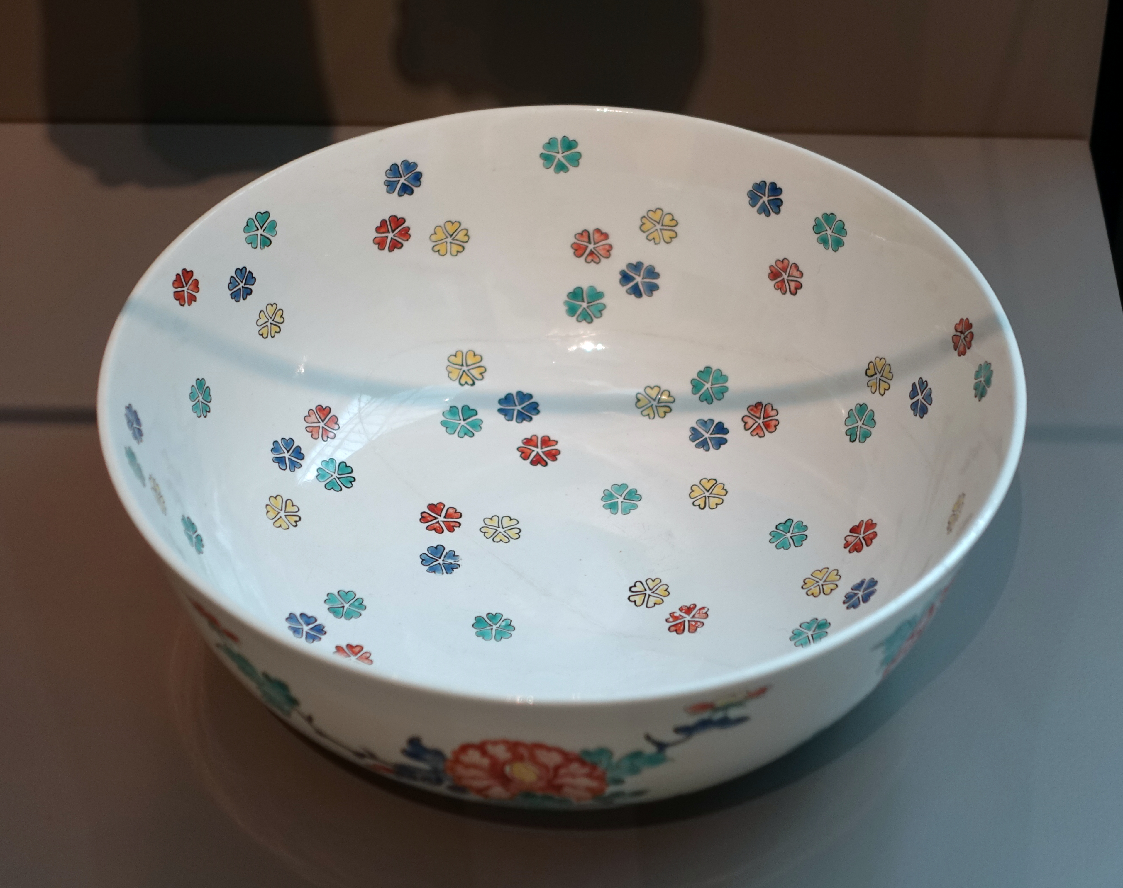 Exhibit in the Wadsworth Atheneum - Hartford, Connecticut, USA. This work is old enough so that it is in the public domain.